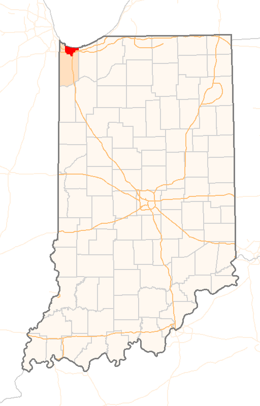 Red Dot map of Indiana, showing the location of Gary